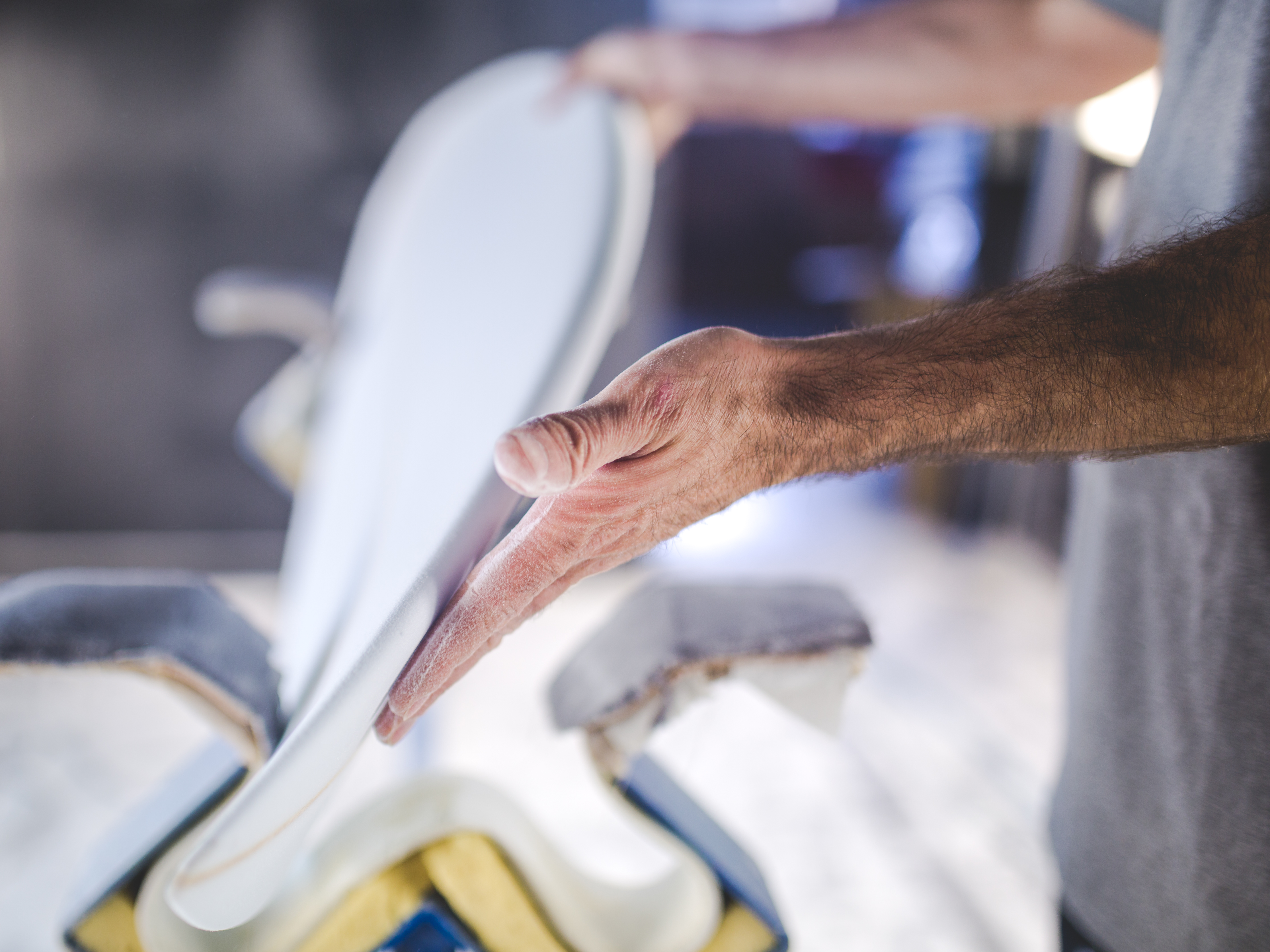 Angoulins, France